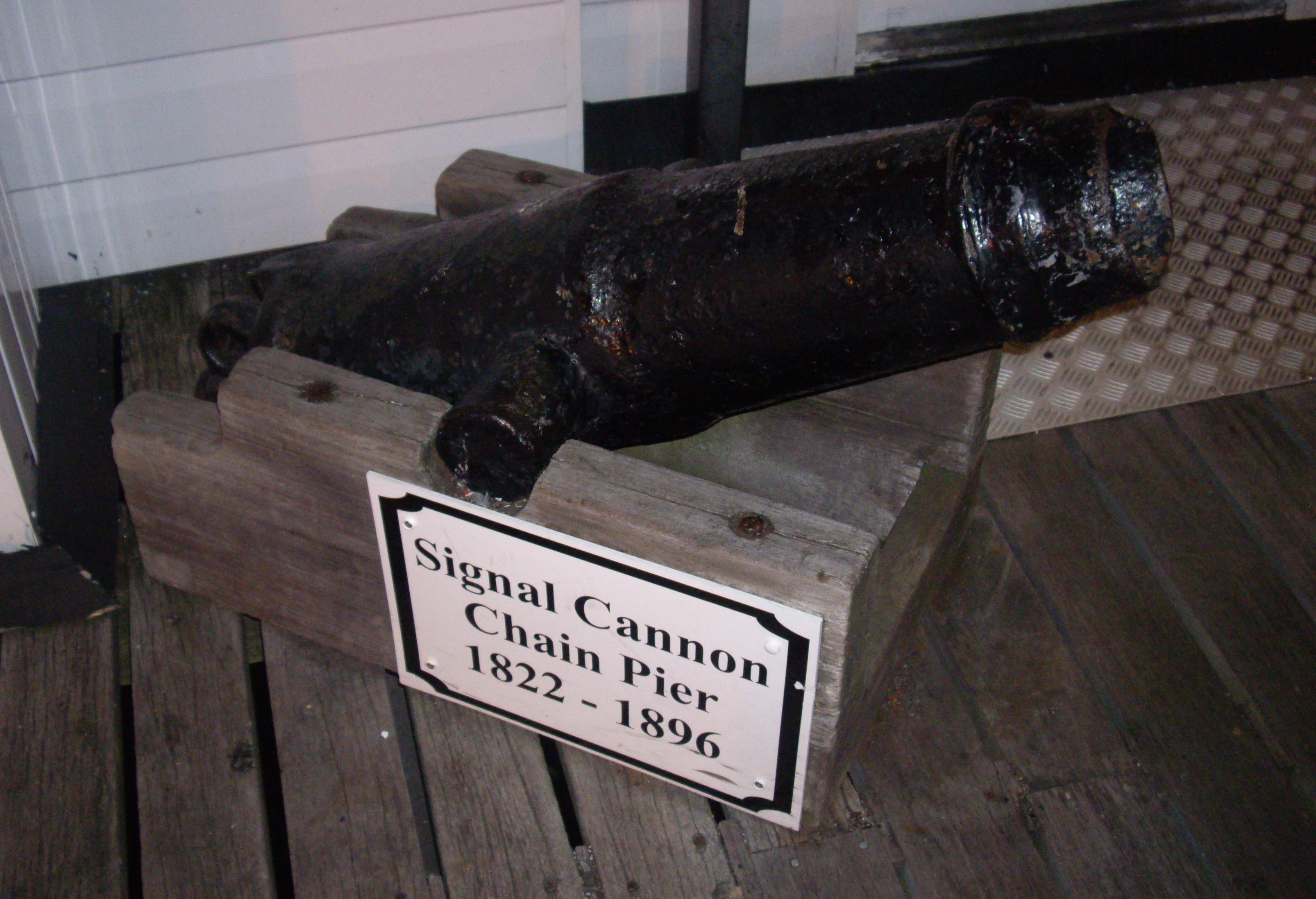 Signal Cannon taken from the Royal Suspension Chain Pier in Brighton, UK. Currently situated on the Palace Pier (September 2009).